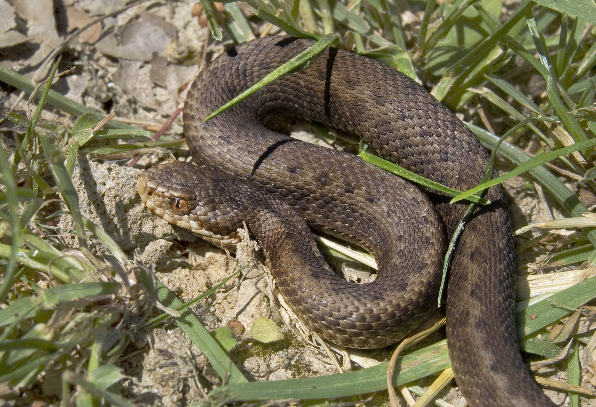 Vipera seoanei viper, a species living in the northern part of the Iberian peninsula and southwestern corner of France. This specimen measures about 25 cm long.